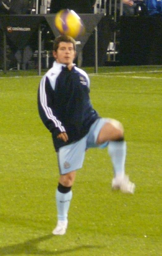 Turkish football (soccer) player Emre Belözoğlu